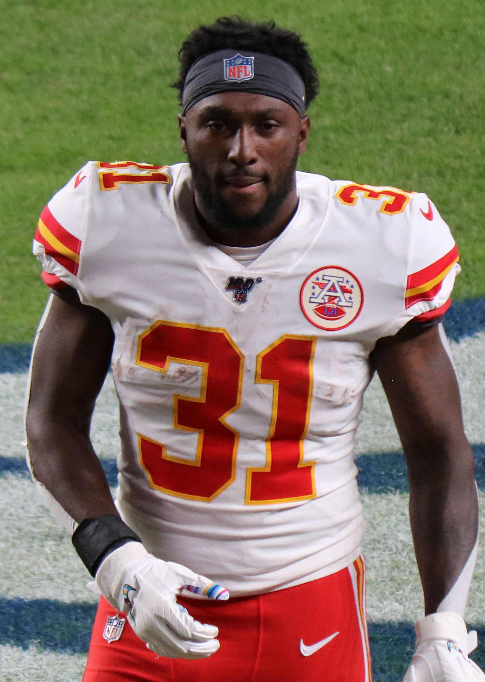 Darrel Williams, a National Football League player.